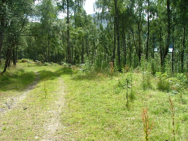 Woodland Track. Track through Birch woods to Home Farm. Dunalastair water can be seen through the trees.